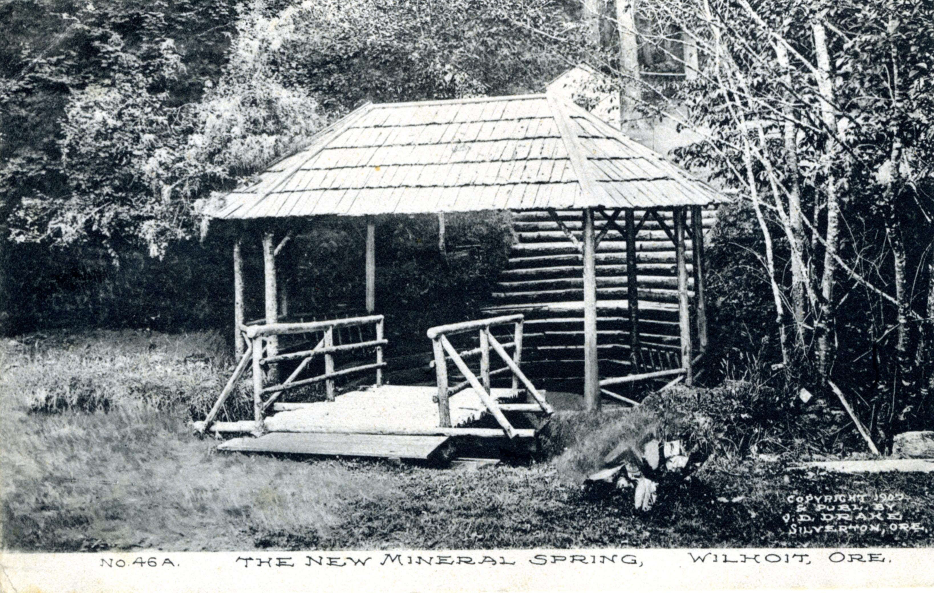 Original Collection: Gerald W. Williams Collection, 1855-2007 Item Number: WilliamsG: WVwilhoitmineral You can find this image by searching for the item number by clicking Want more? You can find more We're happy for you to share this digital image within the spirit of The Commons; however, certain restrictions on high quality reproductions of the original physical version may apply. To read more about what “no known restrictions” means, please visit the or contact staff at the OSU Special Collections & Archives Research Center for details.